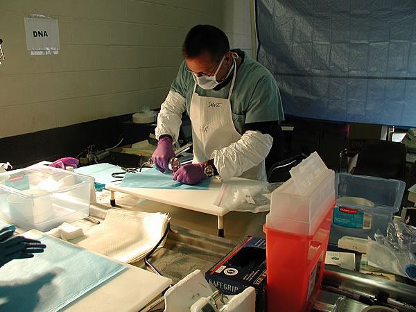 David Boyer, director, DNA Repository, AFIP, collects DNA samples at the temporary morgue in Somerset County, PA.